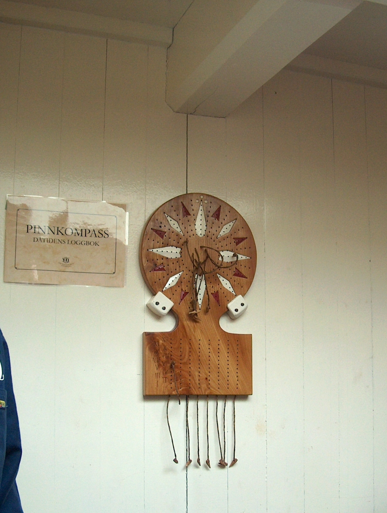 Traverse board of the sailship Götheborg